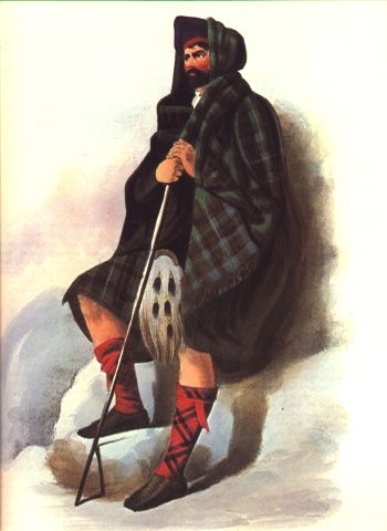 Source: James Logan, R. R. MacIan (ill.) The Clans of The Scottish Highlands. First published 1845, reprinted 1847. Creator: Robert Ronald MacIan (1803-1856)